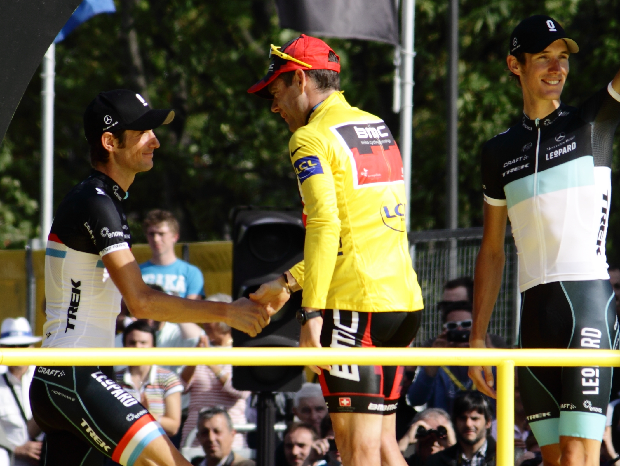 Cadel Lee Evans (/kəˈdɛl/,[2] born 14 February 1977) is an Australian professional racing cyclist and winner of the 2011 Tour de France. In early career, Evans was a champion mountain biker, first riding for the Diamondback MTB team, then for the Volvo-Cannondale MTB team, winning the World Cup in 1998 and 1999 and placing seventh in the men's cross-country mountain bike race at the 2000 Summer Olympics in Sydney. Evans turning to full-time road cycling in 2001, and gradually progressed through ranks. He ended up second in 2007 and 2008 Tours de France. He became the first Australian to win the UCI ProTour (2007) and the UCI Road World Championships in 2009. Finally, he won the Tour de France in 2011, riding for BMC Racing Team, after two Tours riddled with bad luck.[3] At 34, he was among five oldest winners in the race's history.